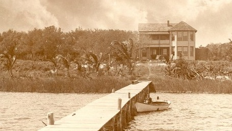 Ben Trovato, the home of Byrd Spilman Dewey and Fred S. Dewey, West Palm Beach Florida taken in 1896. Now the site of the Rapallo Condominium on Flagler Drive